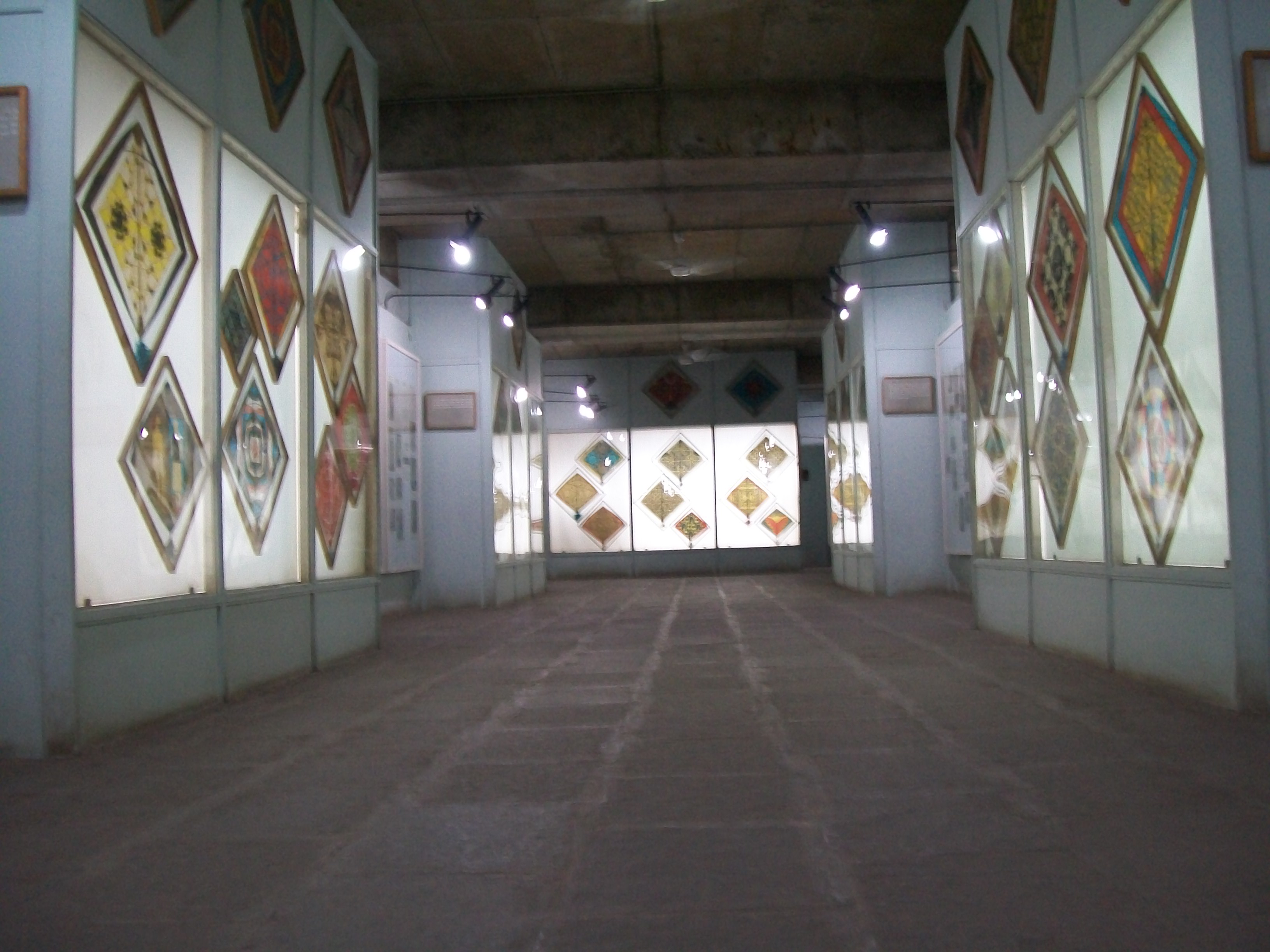 Kite Museum at Ahmedabad, India